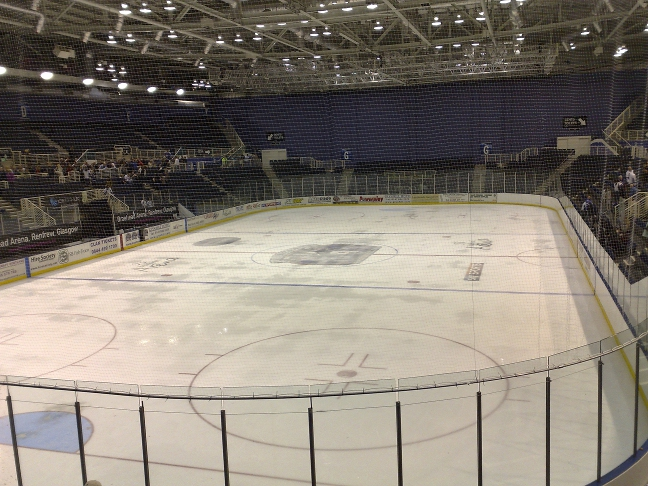 This photograph shows the ice pad of Braehead Arena as taken on 26 December 2011.